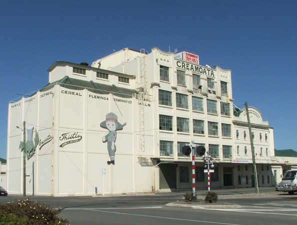 The Former Fleming's Cereal factory, a major landmark in central Gore.Closed down by Goodman Fielder in August 2001. Most famous for its CREAMOATA, a medium or fine ground porridge. Photograph by James Dignan (User: Grutness), February 2008. Other products from this factory included, Thistle Oatmeal, Rolled Oats, Milk Oaties, Vita Crunch, Flaked Rice, Semolina, Bran Flakes and Muesli.